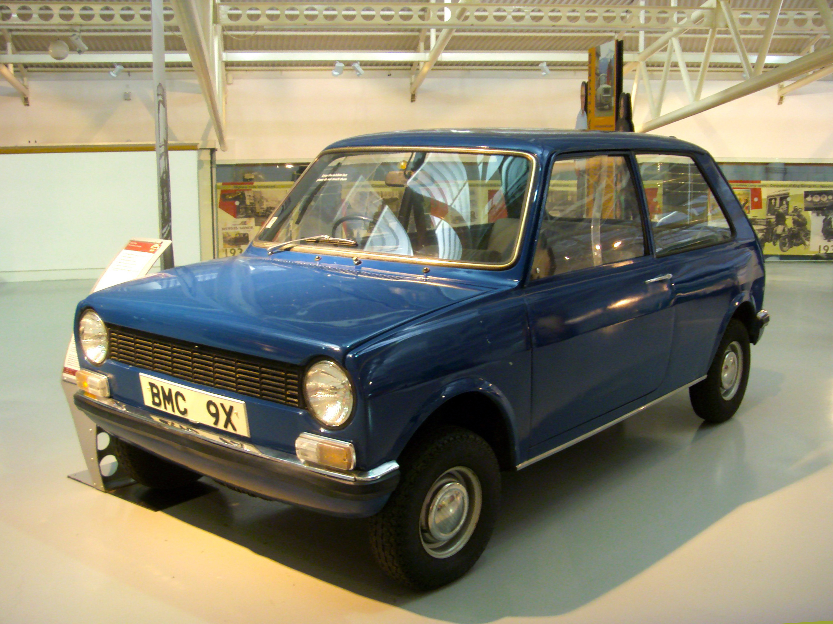 Conceived to be the Mini's successor